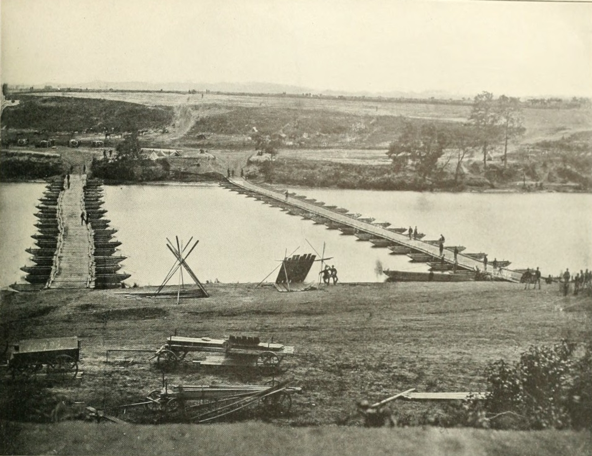 Union engineers built the pontoon bridges at Franklin Crossing where Gen. Franklin spent two days crossing with the left wing of the Union army for the Battle of Fredericksburg.